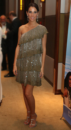 Miss Spain 07 Natalia Zabala Arroyo in Miss World 07, Sanya, China